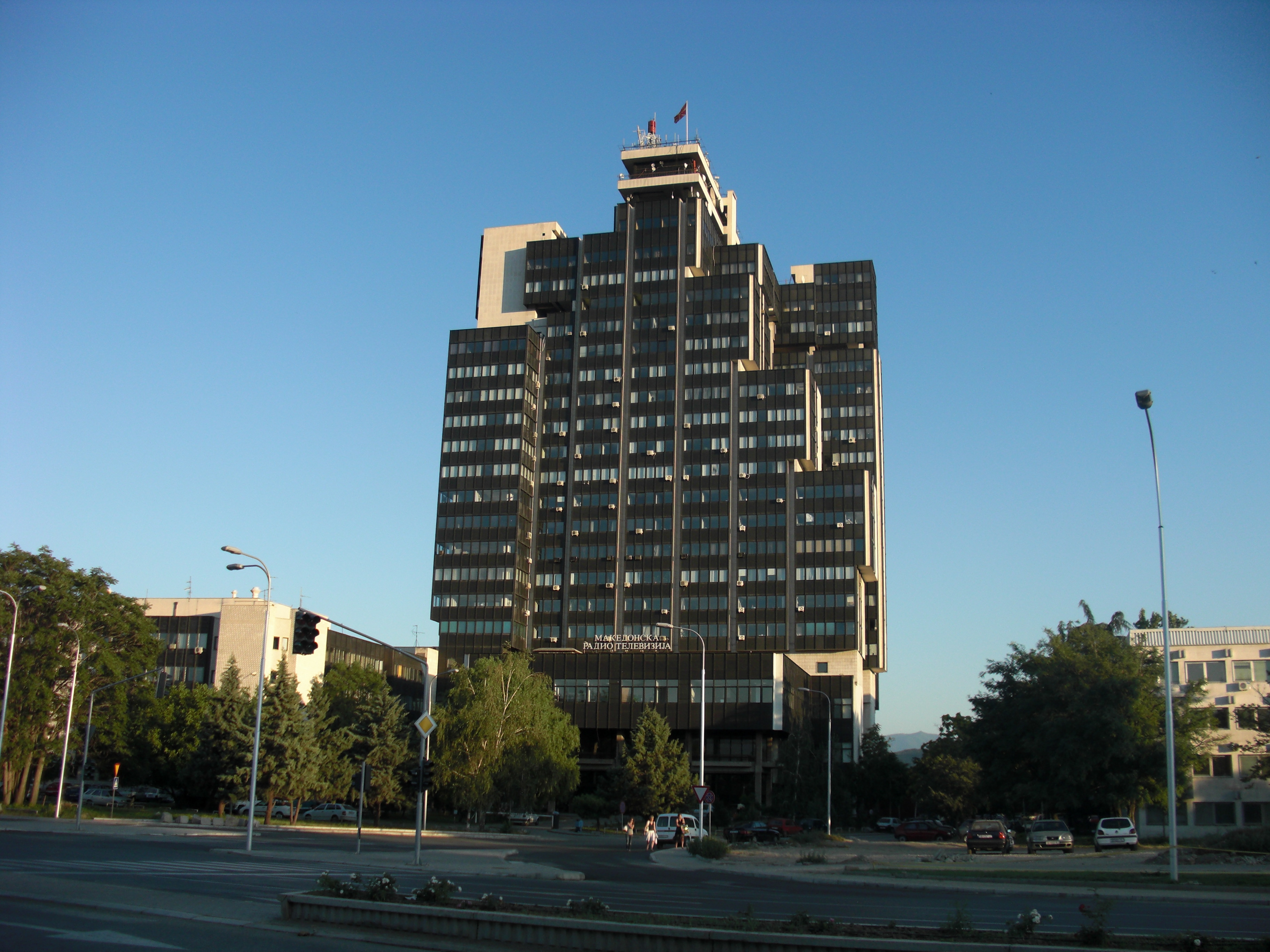 MRT (Macedonian Radio-Television) Center in Skopje, Macedonia